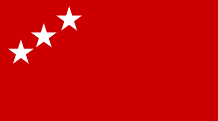 Flag of the National Unity Party မြန်မာဘာသာ: တိုင်းရင်းသားစည်းလုံးညီညွတ်ရေးပါတီ